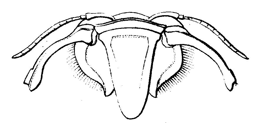 Megachile Pluto, femelle imago : Front view of the head of ditto, with mandibles opened to show the labrum.